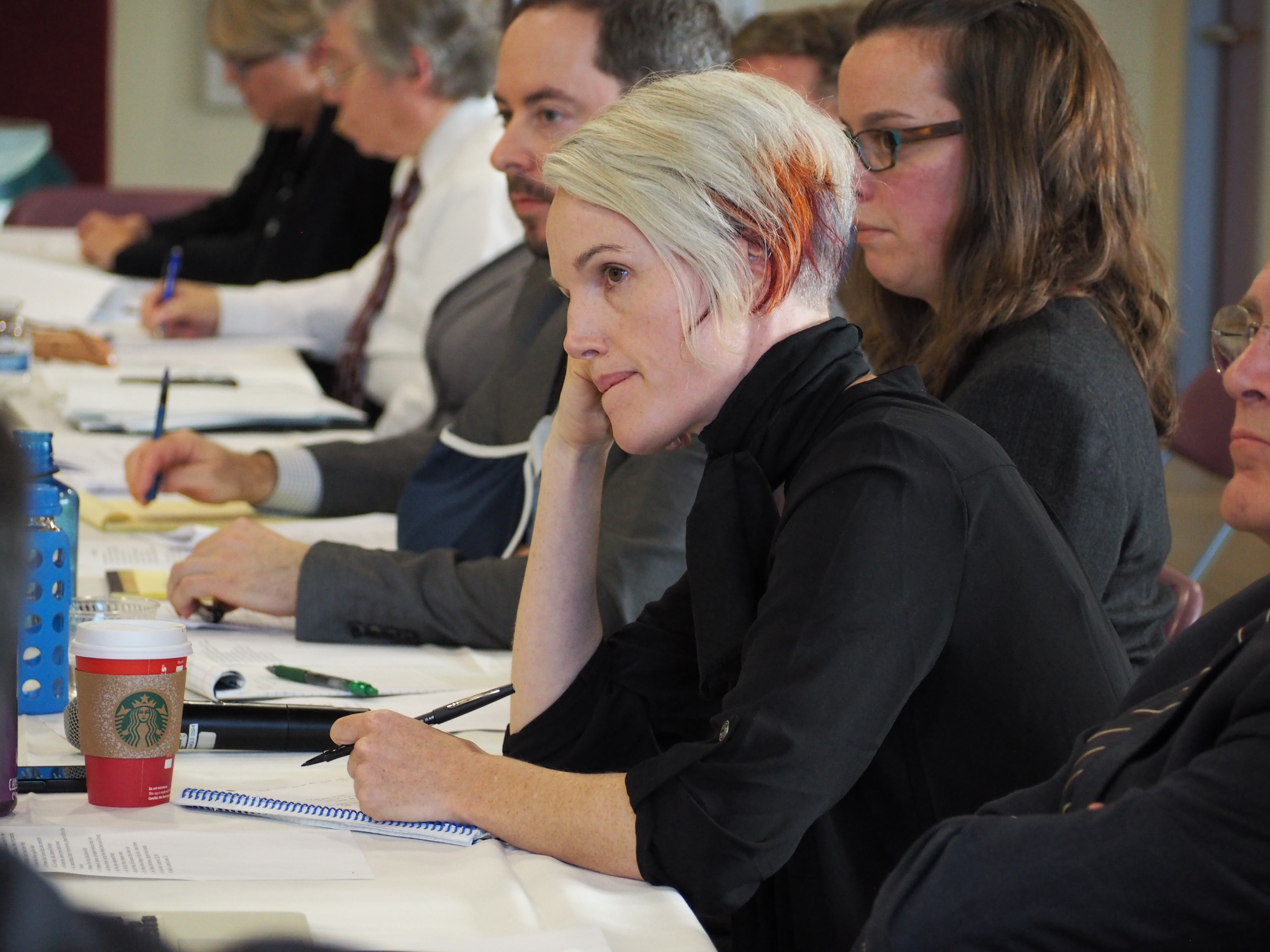 Cellist Zoë Keating at the House Committee on the Judiciary copyright review listening tour event in Santa Clara.